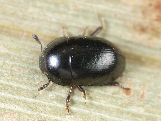 Phalacrus caricis. Location:The Netherlands - Gameren - Lieskampen en Achterbroek